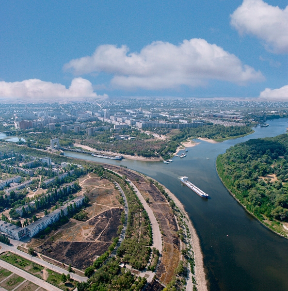 Krasnoameyskiy district of Volgograd.